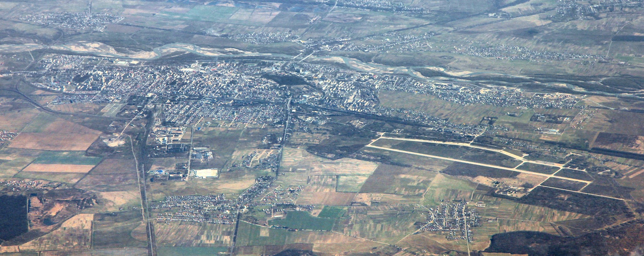 Stryi, Ukraine. Aerial view with Stryi Air Base.